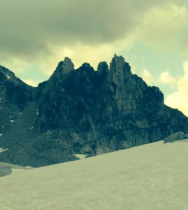 Crescent Towers, Bugaboos, Purcell Range, British Colombia, Canada